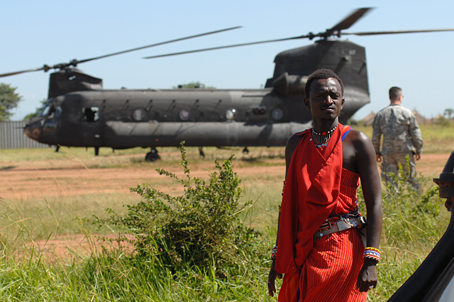 091015-A-1211N-197 Ratik Ole Kuyana, a safari guide, awaits troops to transport as part of U.S. Army Africa's exercise Natural Fire 10 at Pajimo Barracks, Kitgum, Kitgum District, Northern Region of Uganda, Oct. 15, 2009. (US Army photo by Spc. Jason Nolte)